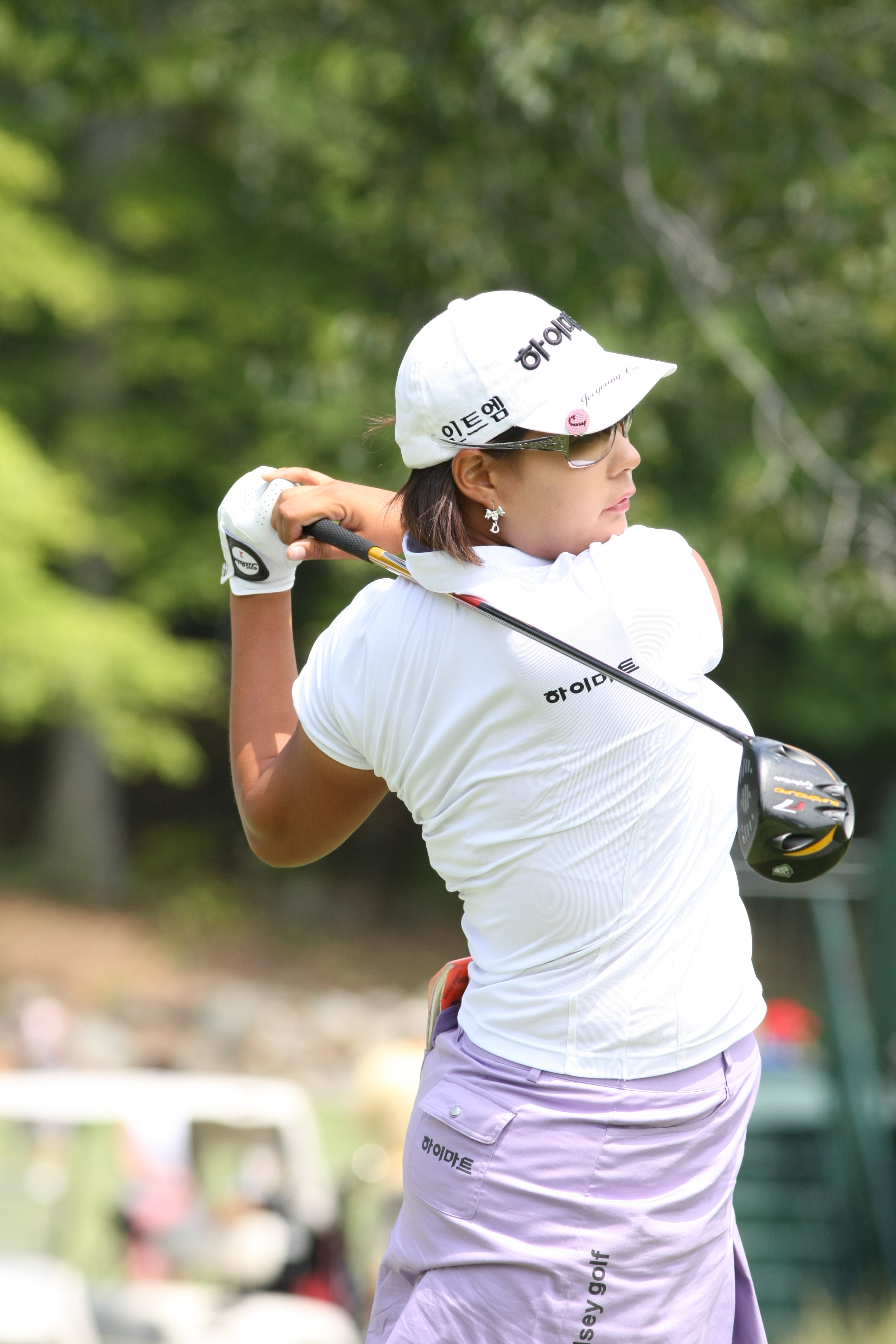 Jee Young Lee (KOR) plays her tee shot during pro-am before 2008 LPGA Championship.